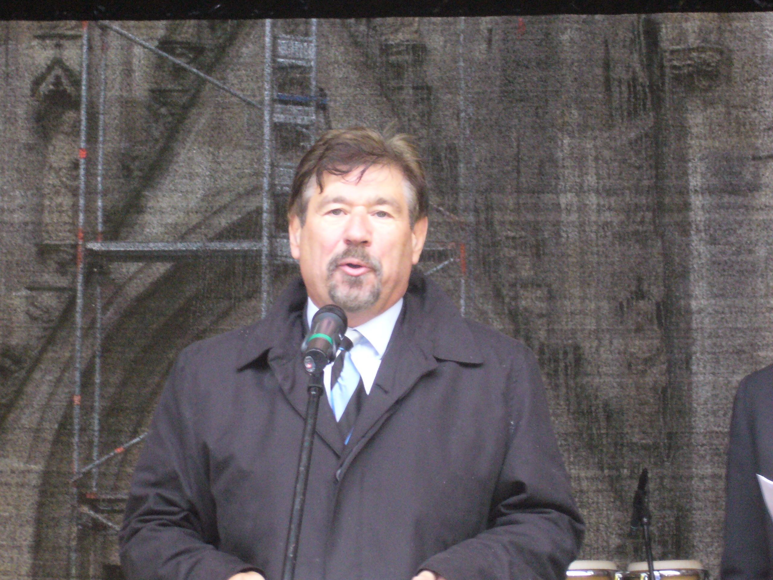 Thomas Engeser, Lord Mayor of Rottweil, Germany